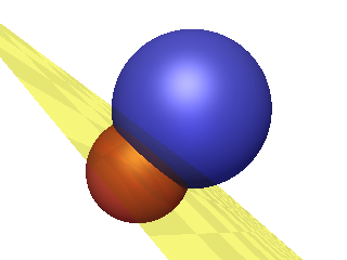 intersection of two spheres